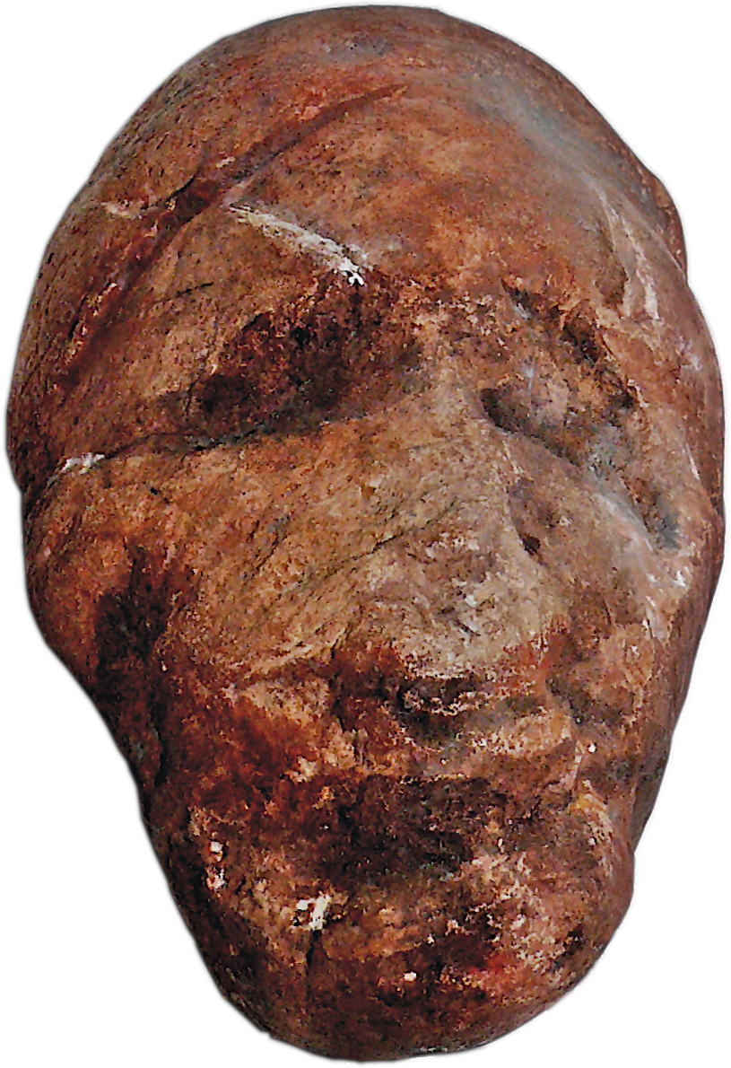 Paleolithic head from Entrefoces cave (Asturias, Spain) - Réplica